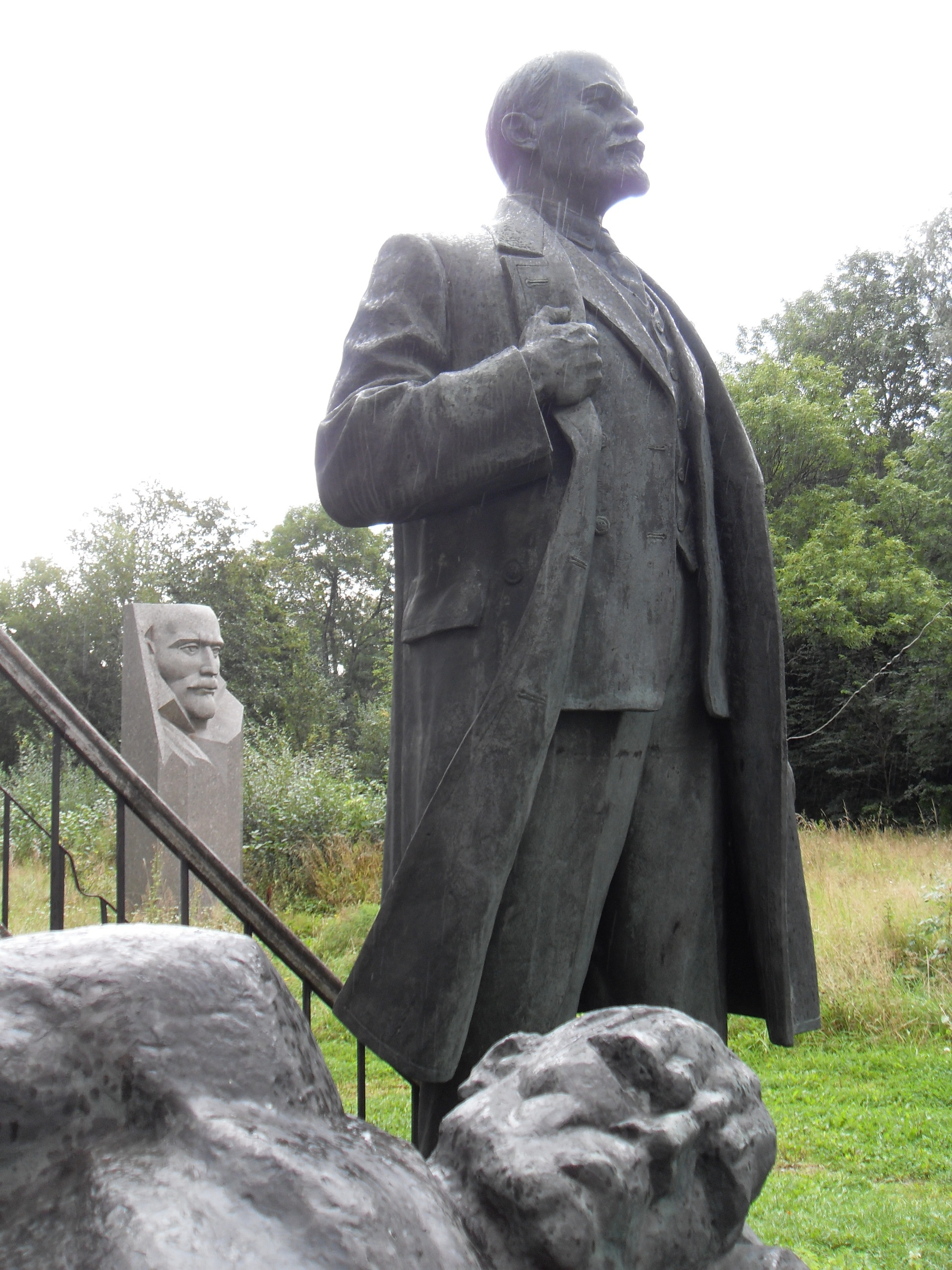 Forgoten Lenin statue at the backyard of the Estonian History Museum at the Maarjamaë Palace. The backyard of the palace has become a graveyard for soviet statues which were too big to be displaied at the Occupations Museum in the center of Tallinn. Most of the forgotten soviet statues have been vandalized and are brocken with missing parts. They lie down on the grass, gathering moss and getting slowly roasted. Only the about 4 meter high statue of Lenin is still standing, looking at the pile of other damaged soviet statues.